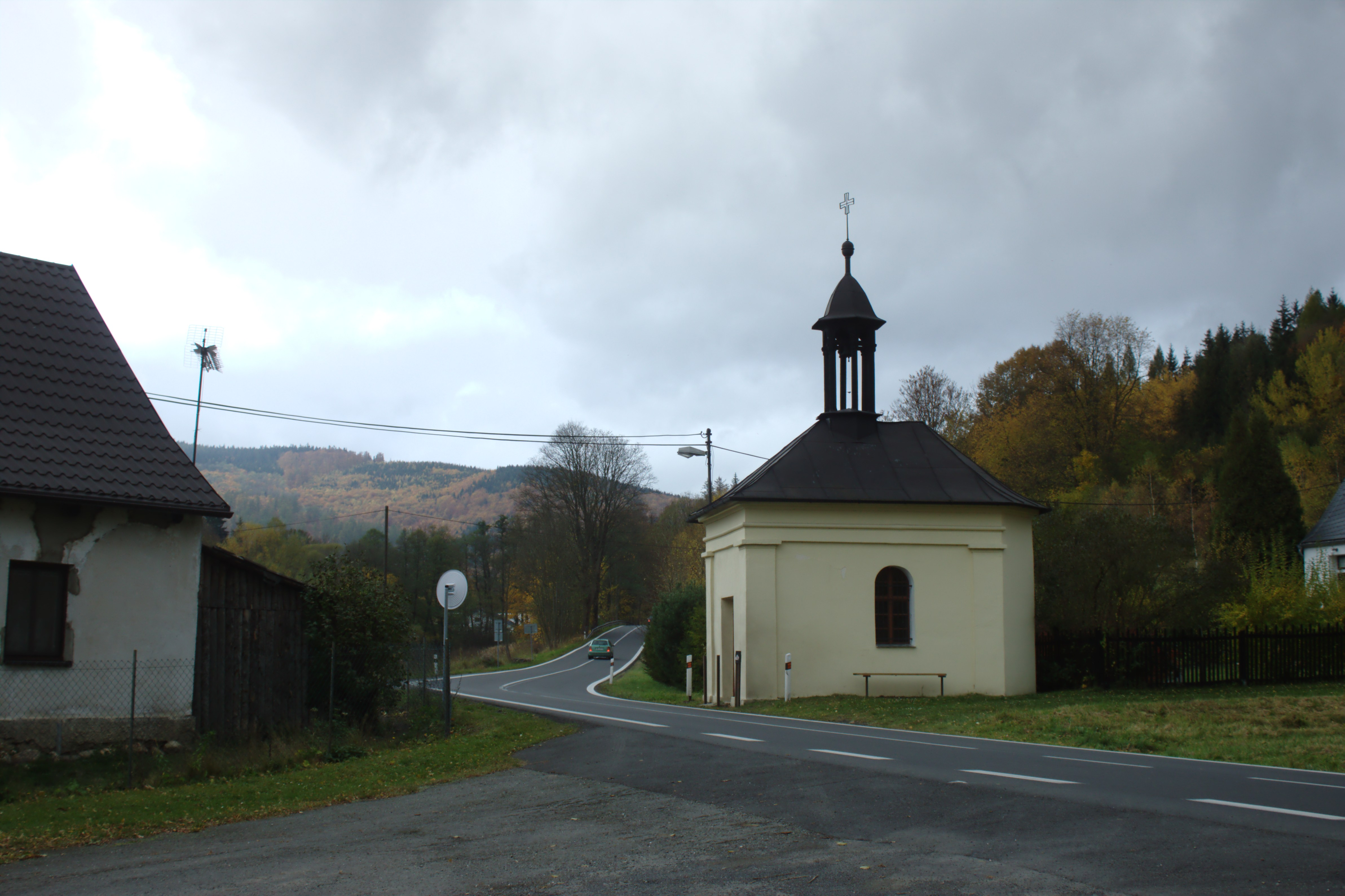 A chapel in the village of Pocheň, Moravian-Silesian Region, CZ